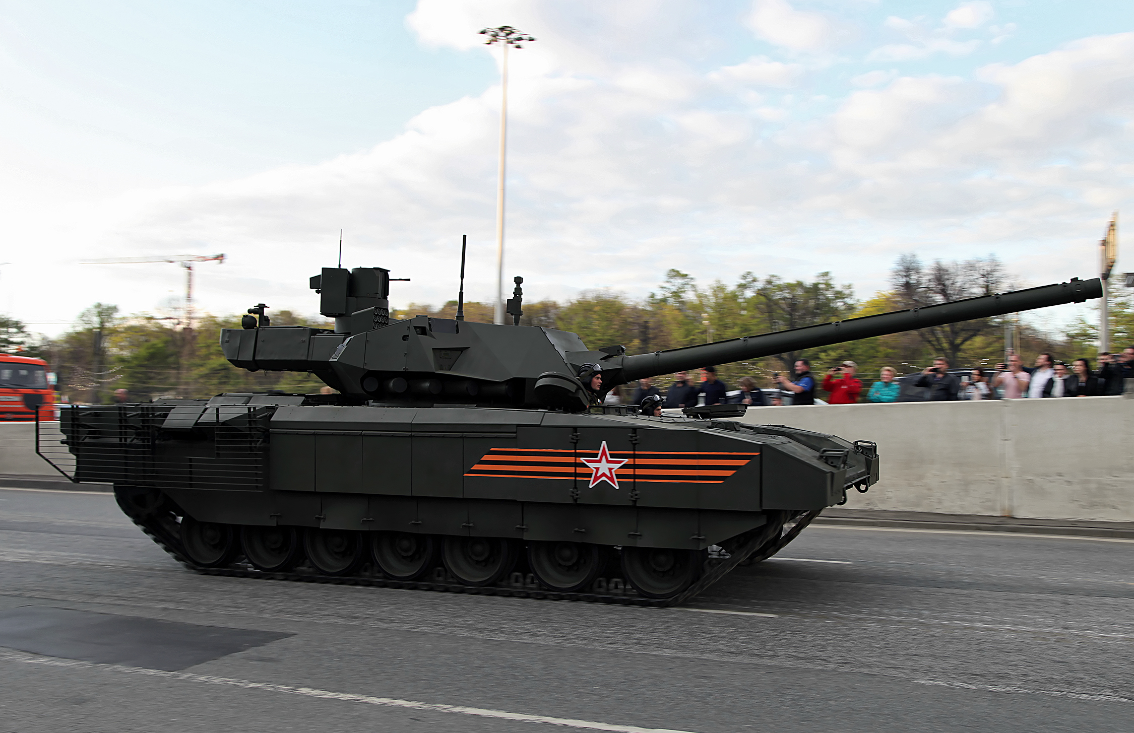 Main battle tank T-14 object 148 Armata